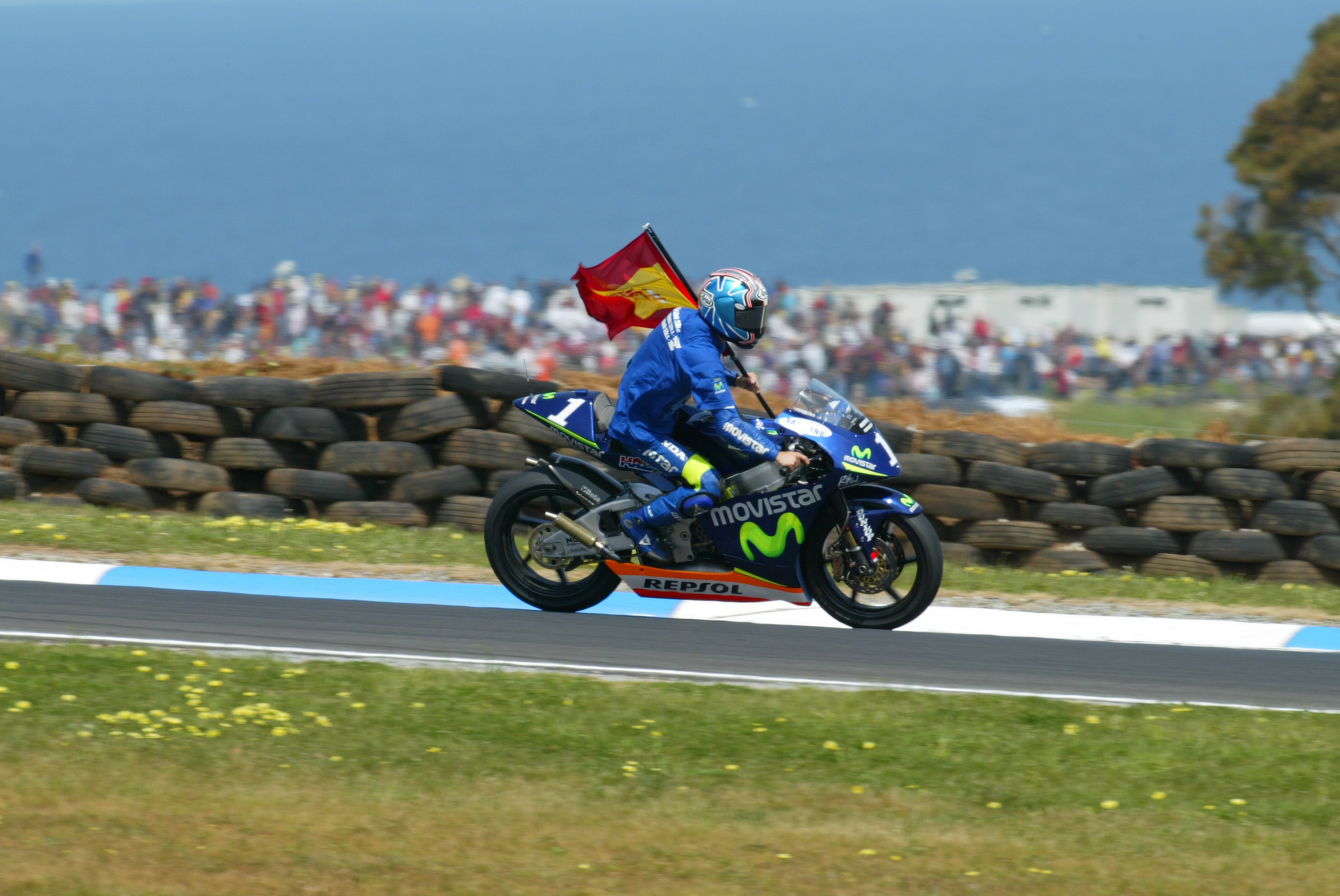 Dani Pedrosa, riding his riding his 250cc Telefónica Movistar Honda, celebrating his second 250cc world championship at the 2005 Australian Grand Prix.